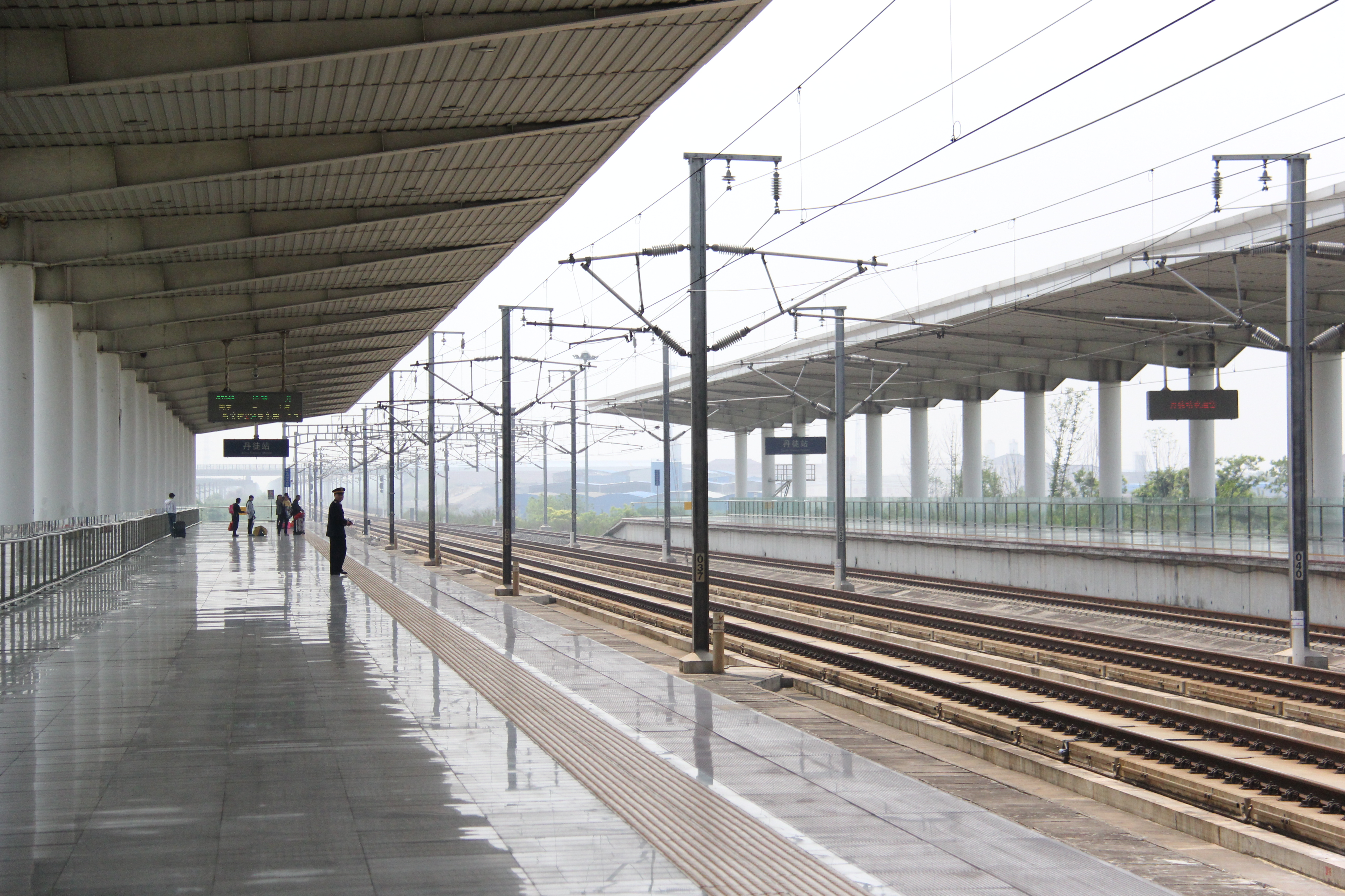 201604 Dantu Station(Shanghai Direction)